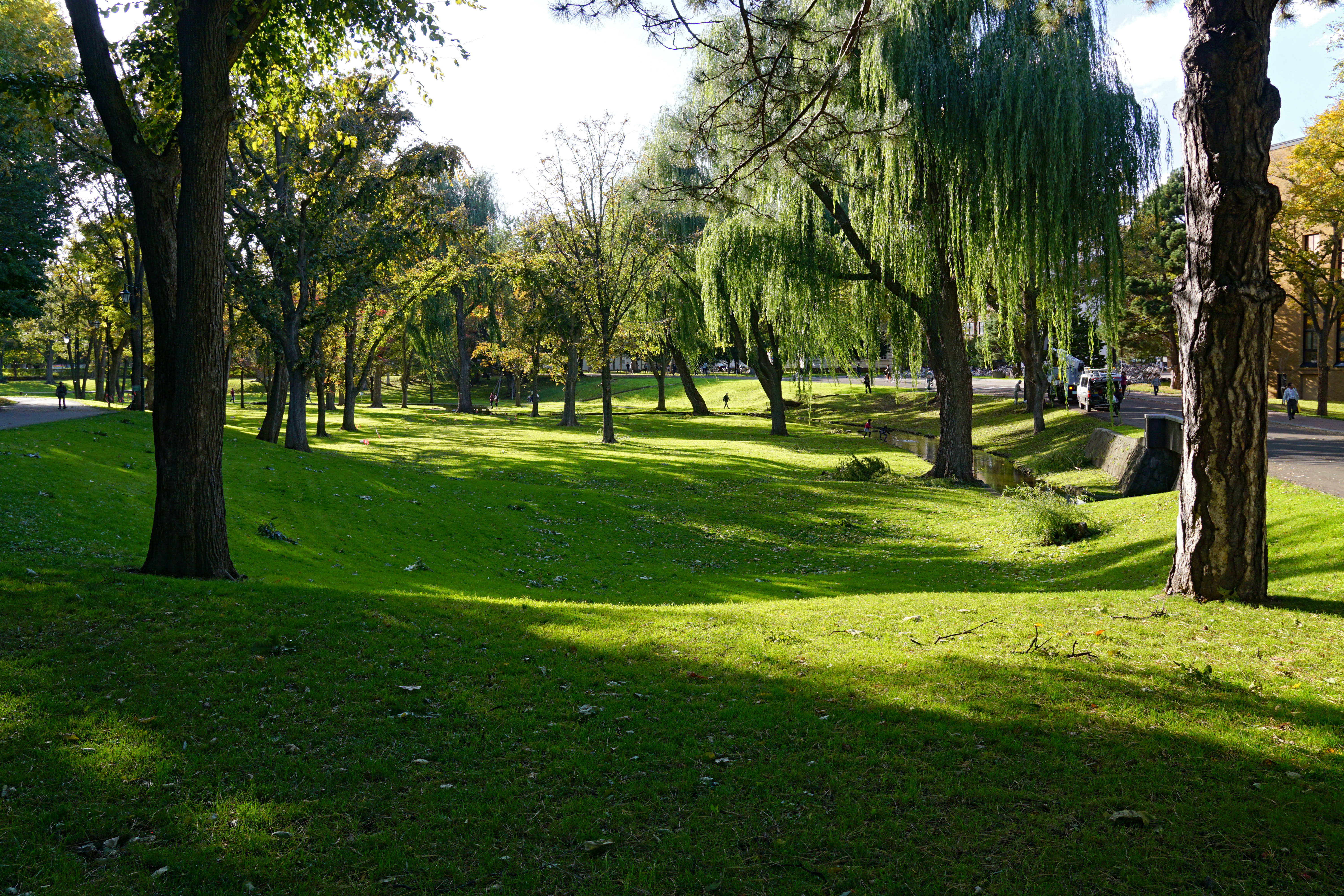 At Hokkaido University in Sapporo, Hokkaido prefecture, Japan.